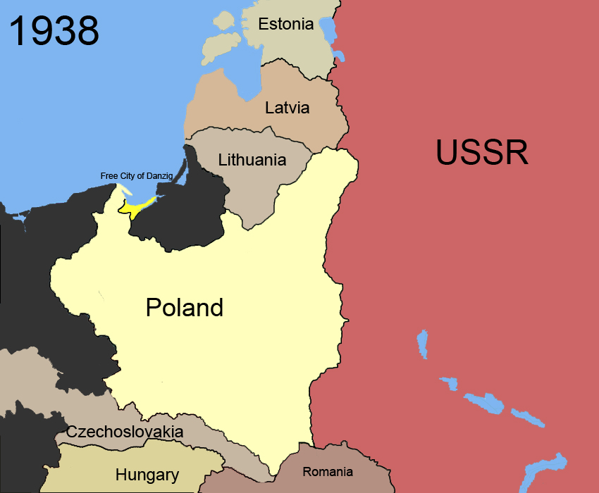 Hungary seizing parts of Czechoslovakia